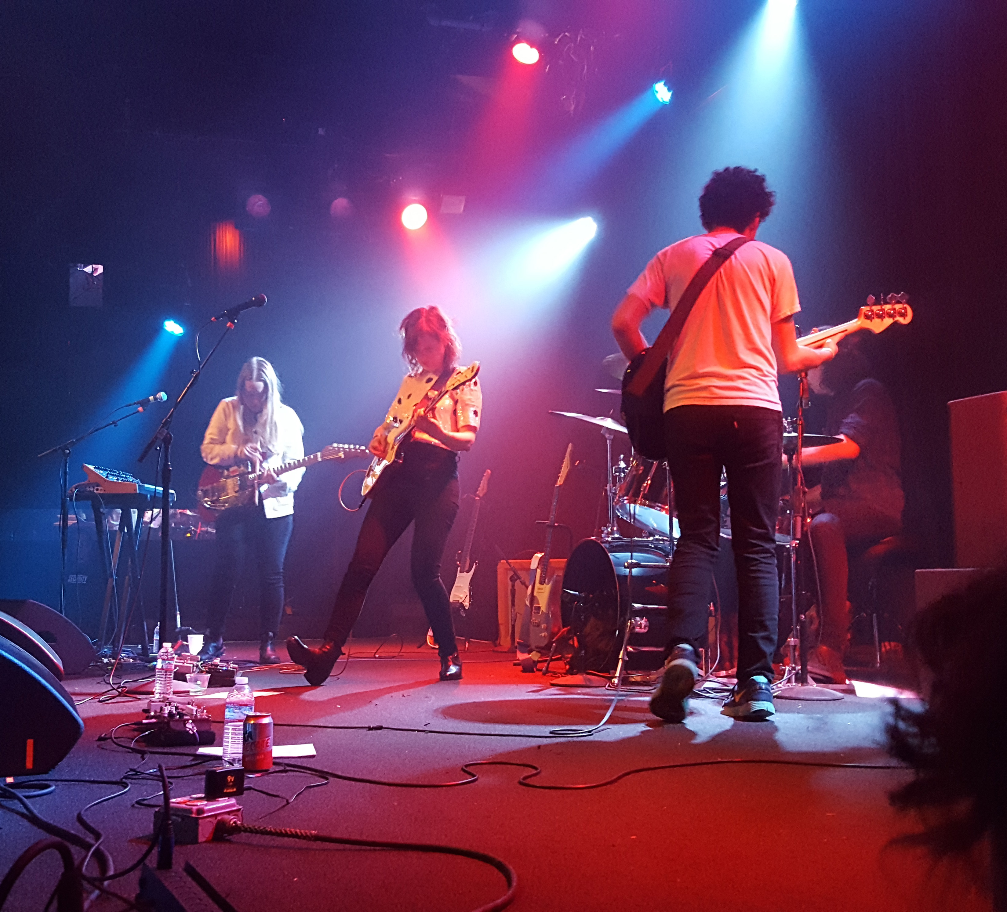 Mary Timony Plays Helium with the band Hospitality at The Independent, San Francisco, CA, February 17, 2018